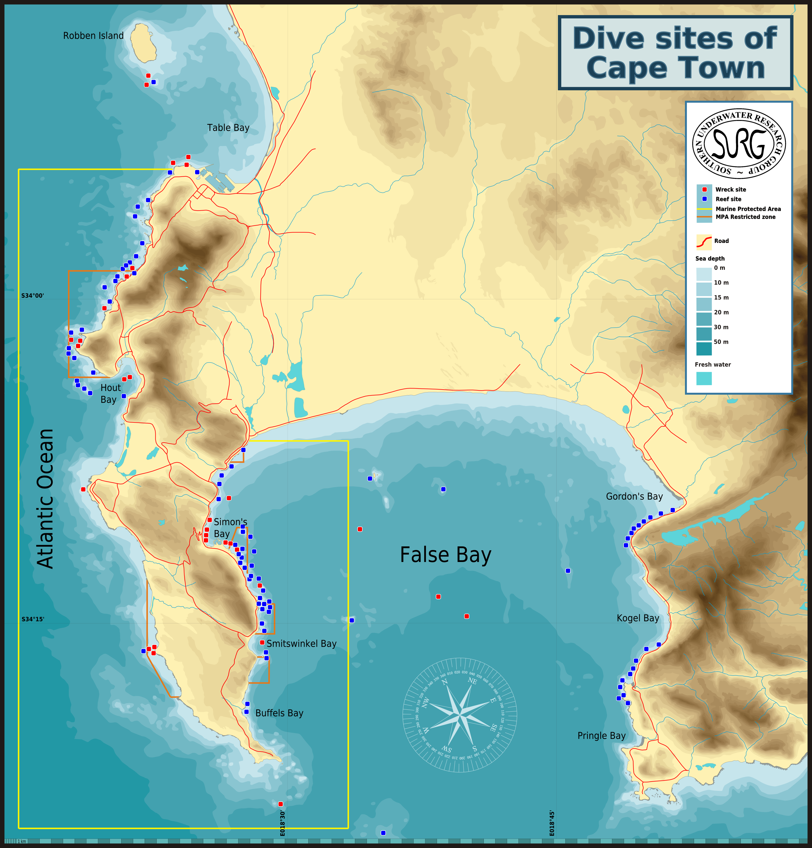 Map of the greater Cape Town region showing most of the named recreational dive sites. Red indicates wreck sites and blue indicates reef sites.